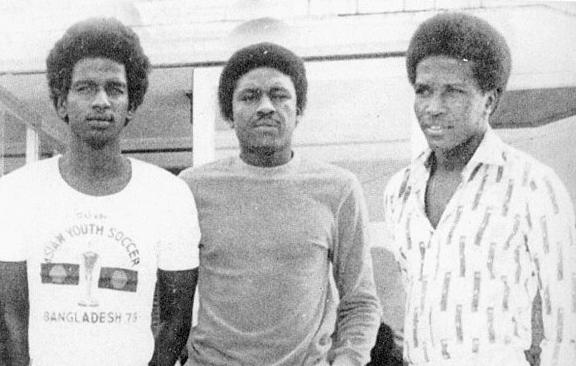 Player of the Saudi team football in the Iraqi capital Baghdad, Majed Abdullah, Tawfiq Al-Muqrin and Abdullah Abed Rabbo.